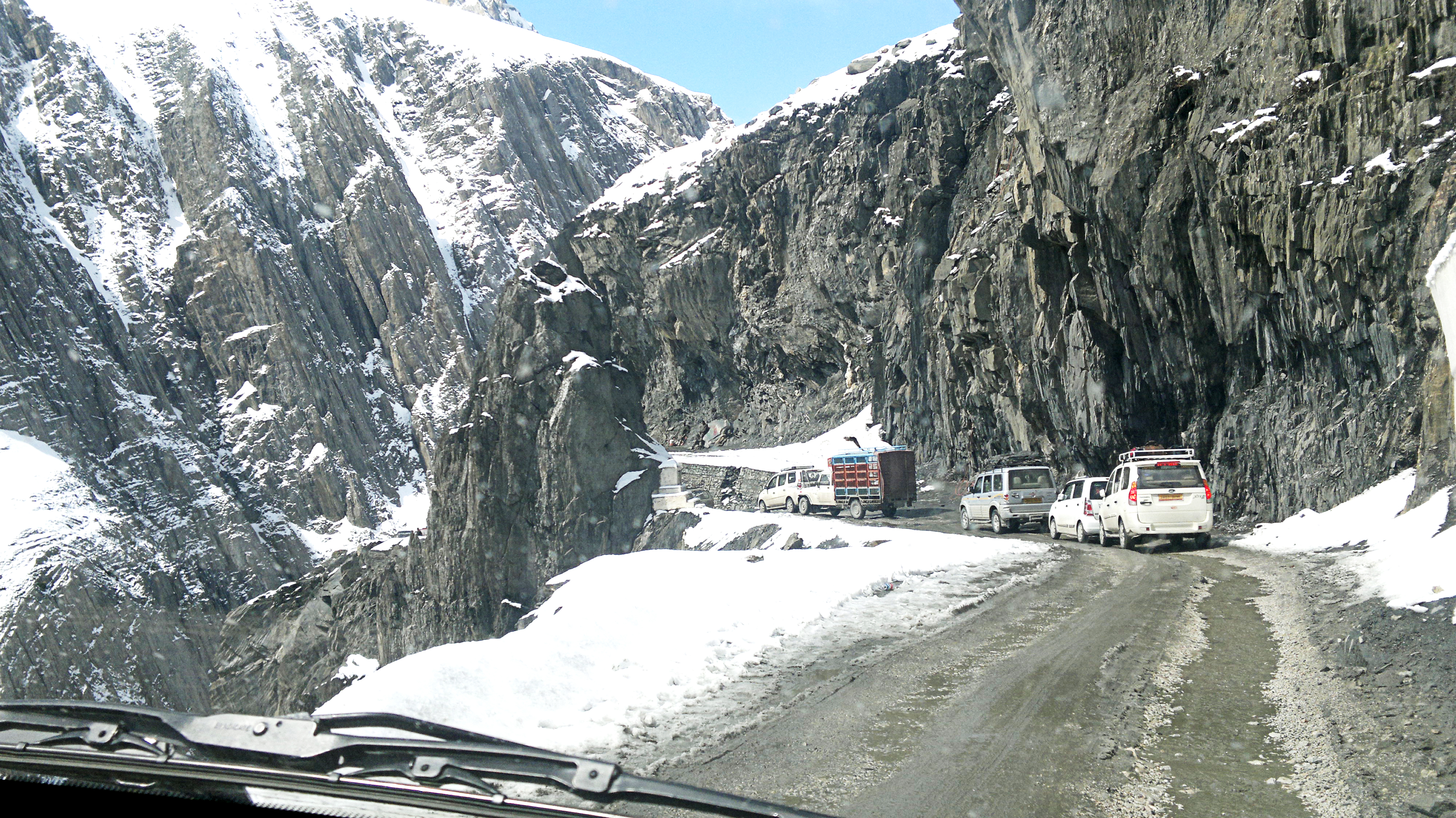 Vehicles proceeding towards the valley through the Zoji La Pass